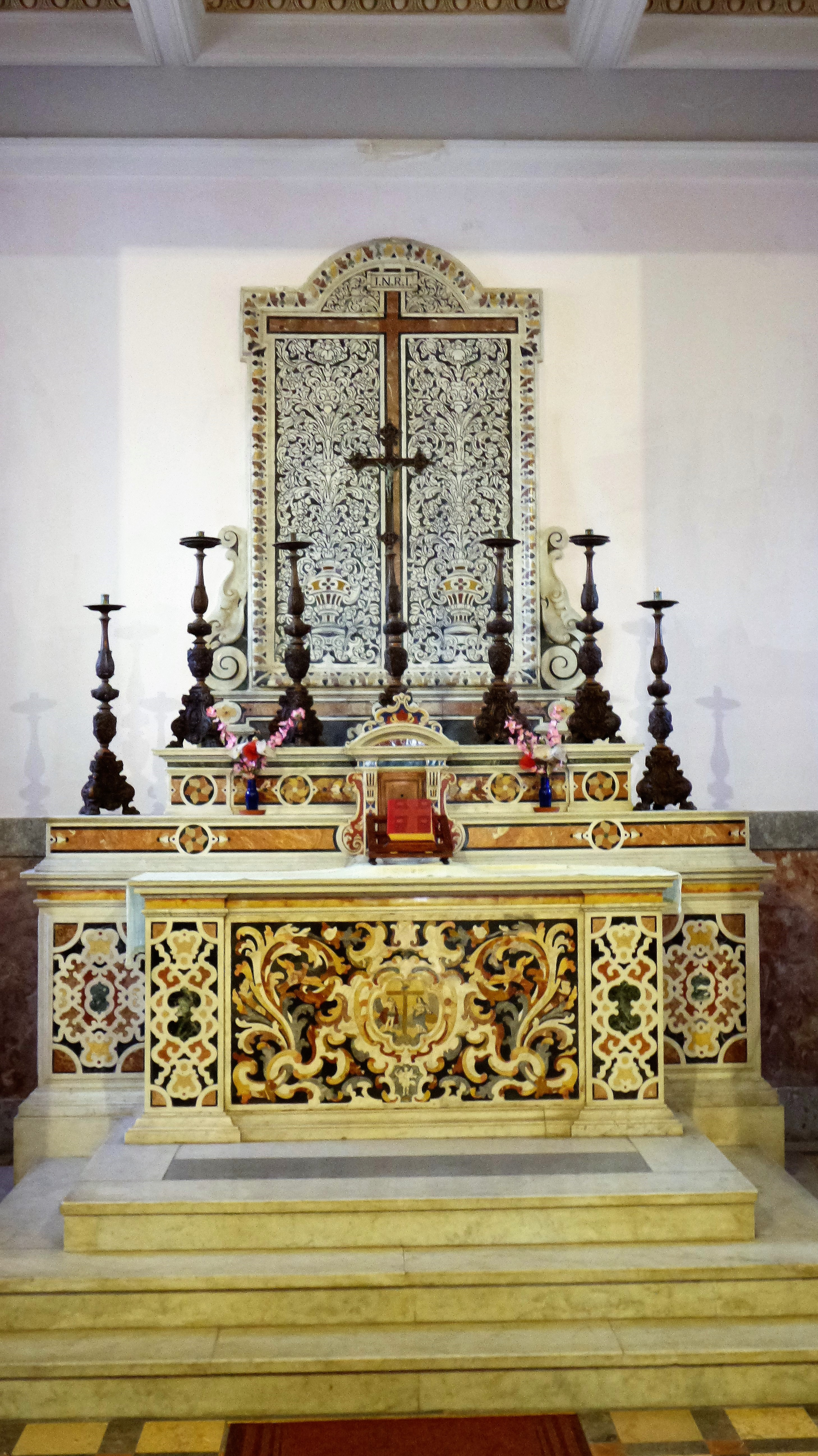 Temple Christ the King (Messina), Memorial of WWI and WWII